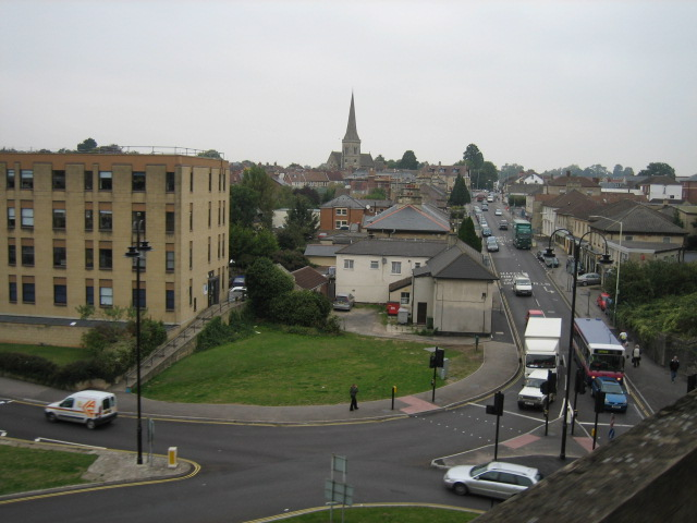 New Road leading to St. Paul's Church, Chippenham.